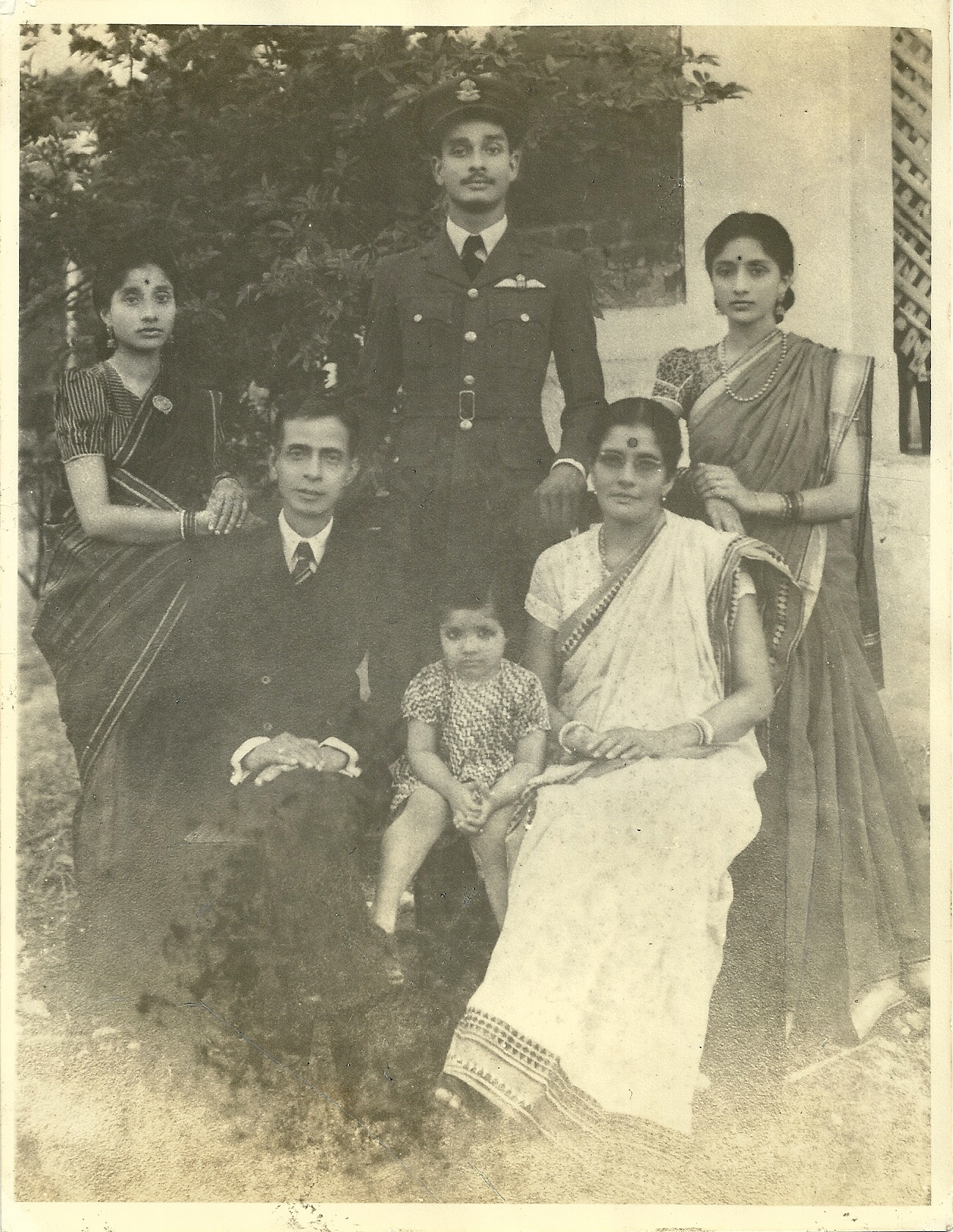 Shot in Patna, Bihar and then scanned from the original